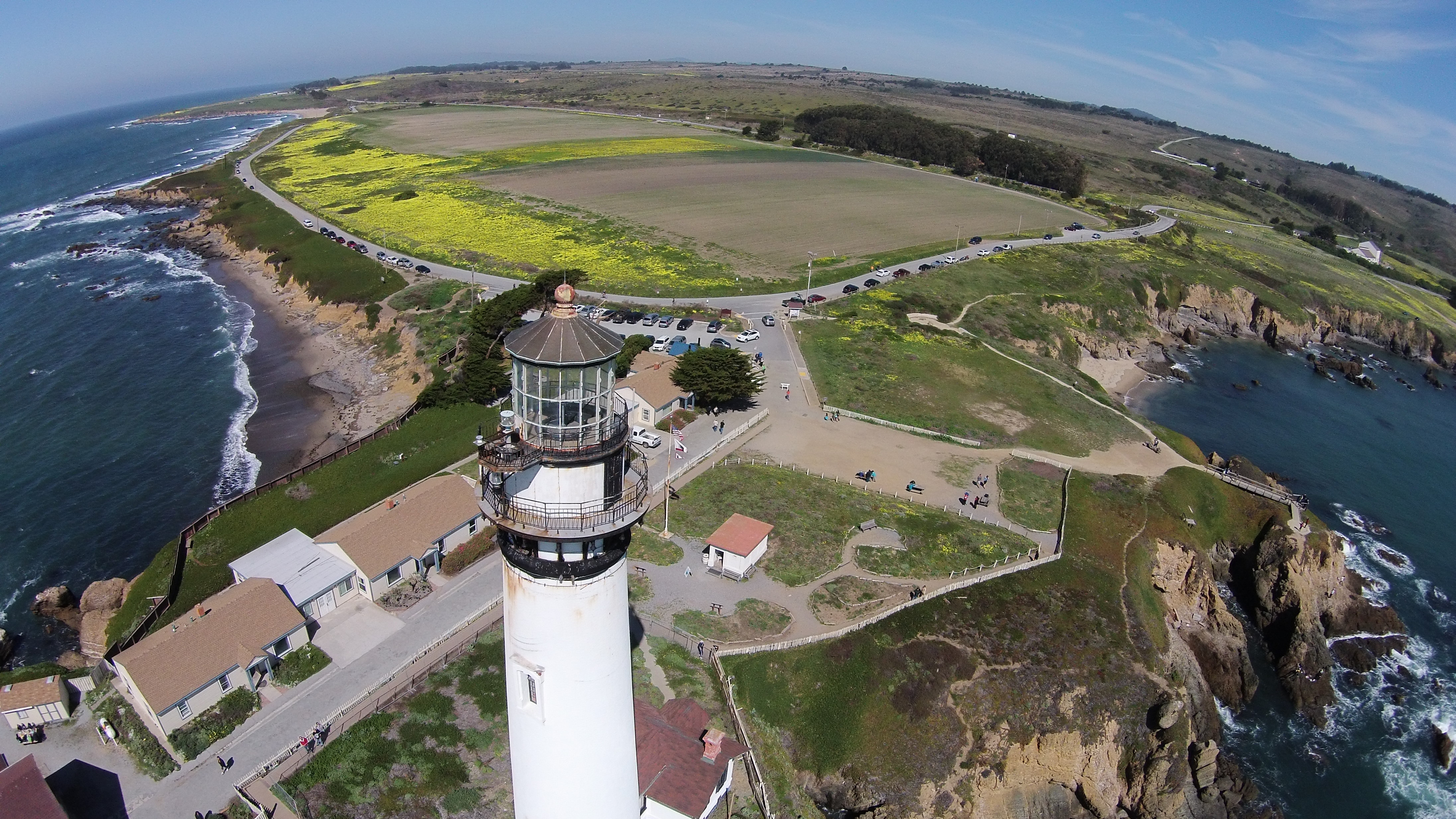 Aerial View of Pigeon Point lighthouse and surrounding coastline